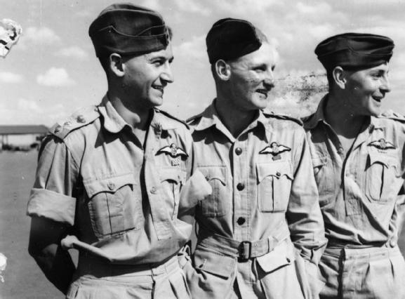 Three notable pilots of No. 3 Squadron SAAF at Addis Ababa. On the left is Captain J E "Jack" Frost, the most successful fighter pilot of the SAAF during the war (see E 3410). In the middle is Lieutenant R H C Kershaw, who earned a DSO for rescuing Frost after he had been shot down during a raid on the Italian airfield a Diredawa. Kershaw landed his Hawker Hurricane alongside, picked up Frost and flew back to their base at Dogabur. On the right is Captain S v.B Theron who, like Frost , enjoyed considerable success with 3 Squadron in Somaliland and Ethiopia. He later commanded No. 250 Squadron RAF in Italy, for which he was awarded the DSO, and served in Normandy in 1944.